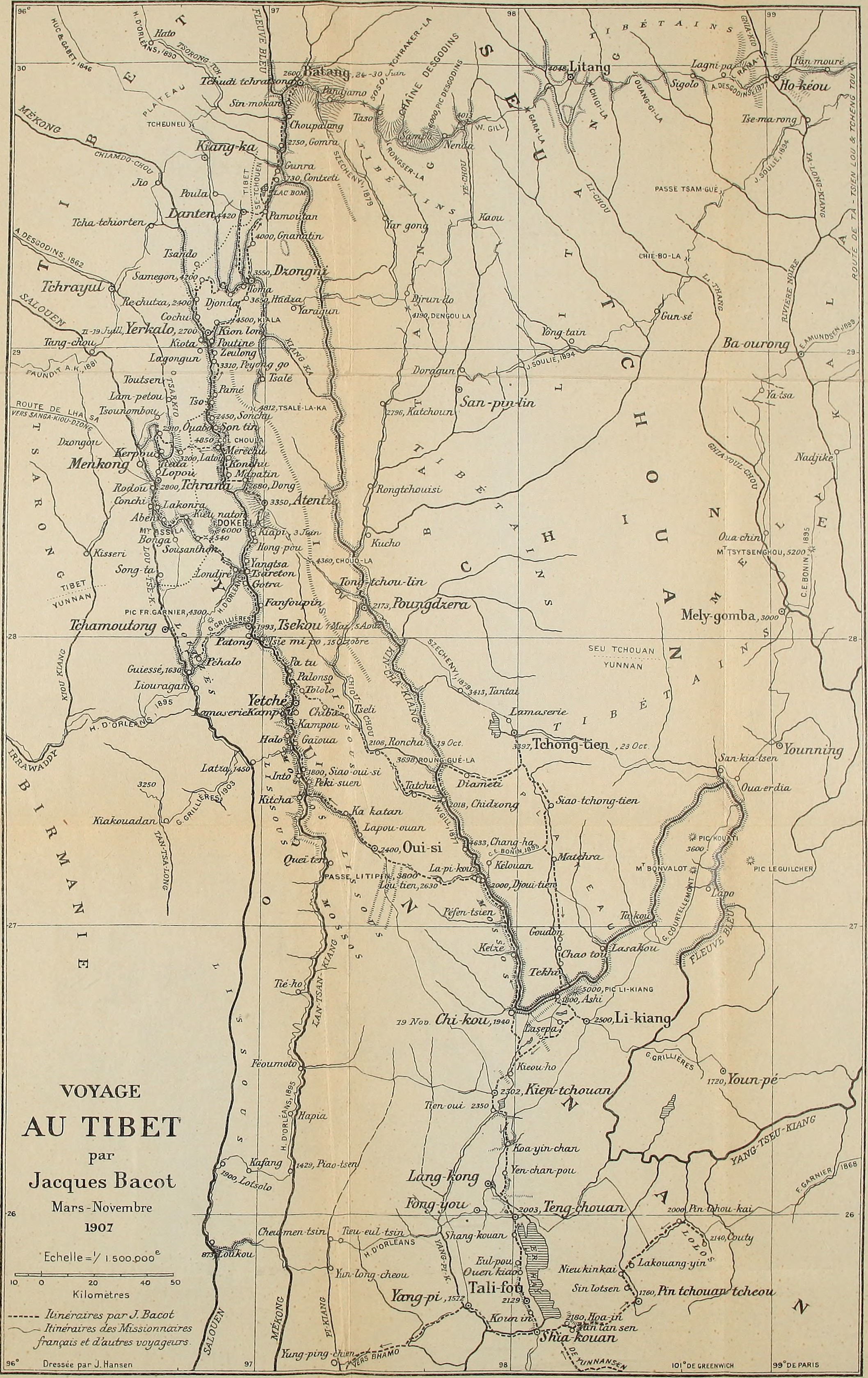 Title: Dans les marches Tibetaines autour du Dokerla Novembre 1906-Janvier 1908 Year: 1909 (1900s) Authors: Bacot, Jacques, 1877-1965 Subjects: Publisher: Paris : Plon-Nourrit et Cie Text Appearing Before Image: ' Text Appearing After Image: PARIS TYPOGRAPHIE PLON-NOURRIT ET CieRue Garancière, 8